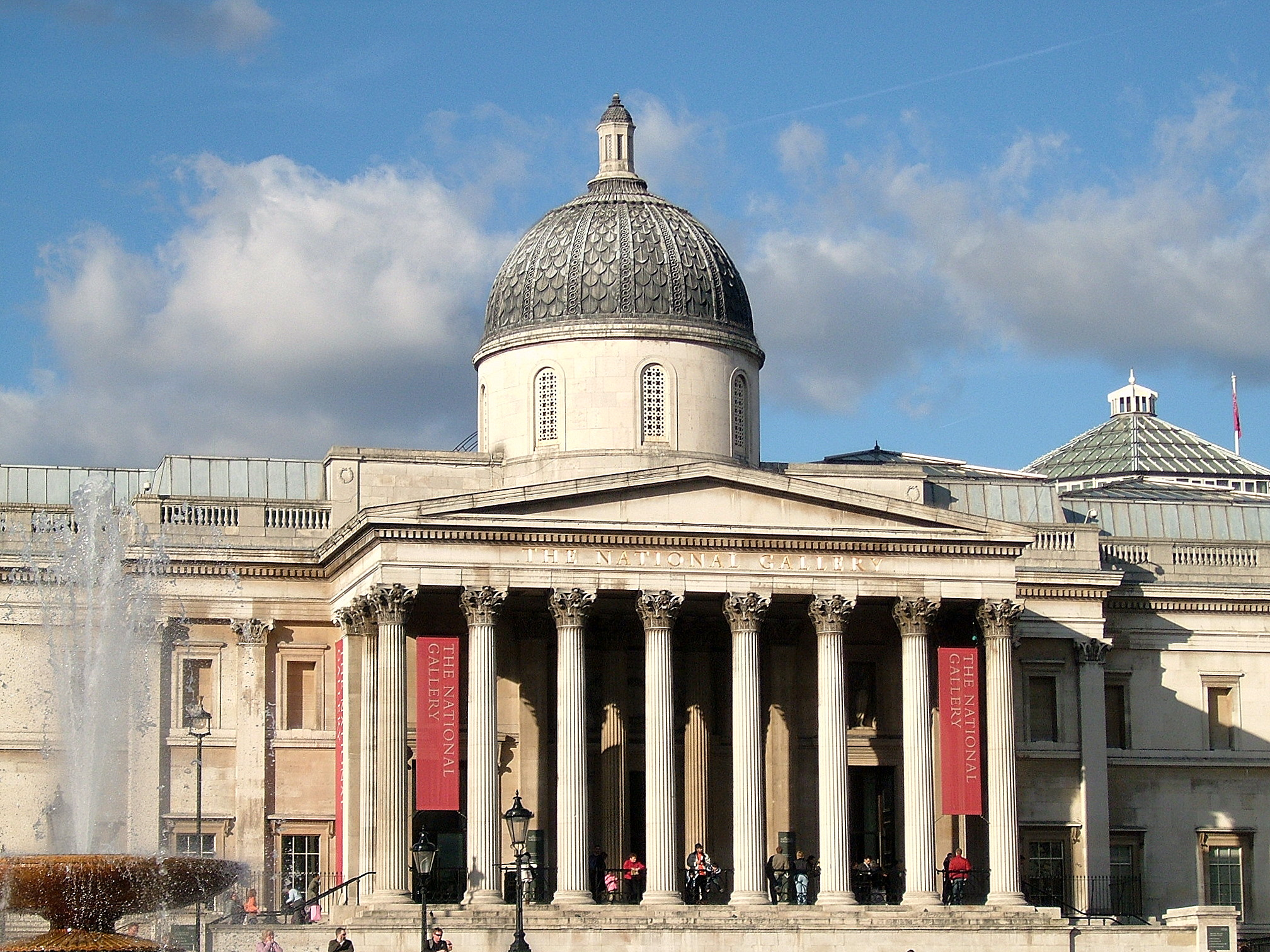 The National Gallery, London